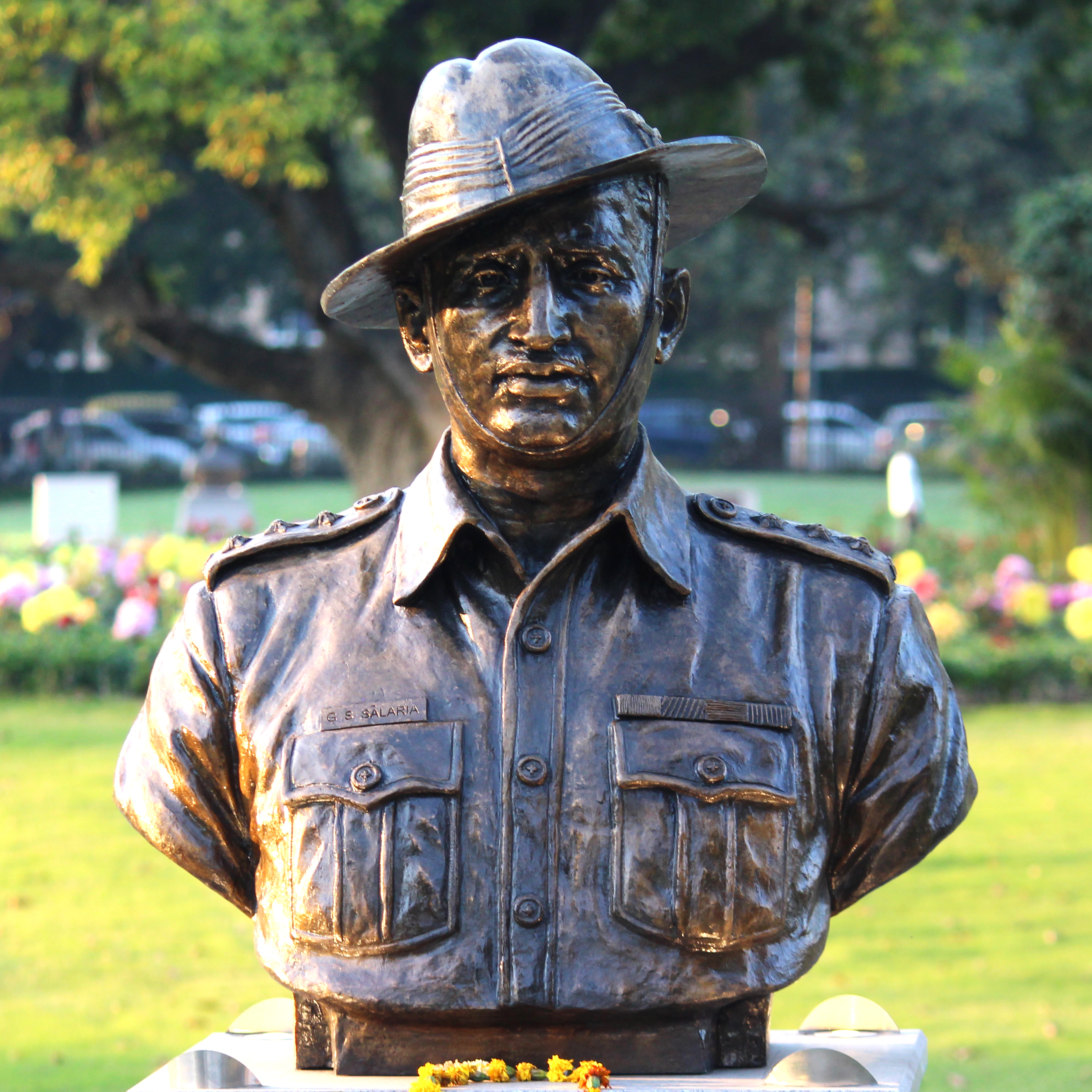 Captain G S Salaria's statue at Param Yodha Sthal (section for Param Vir Chakra recipients), National War Memorial, New Delhi.